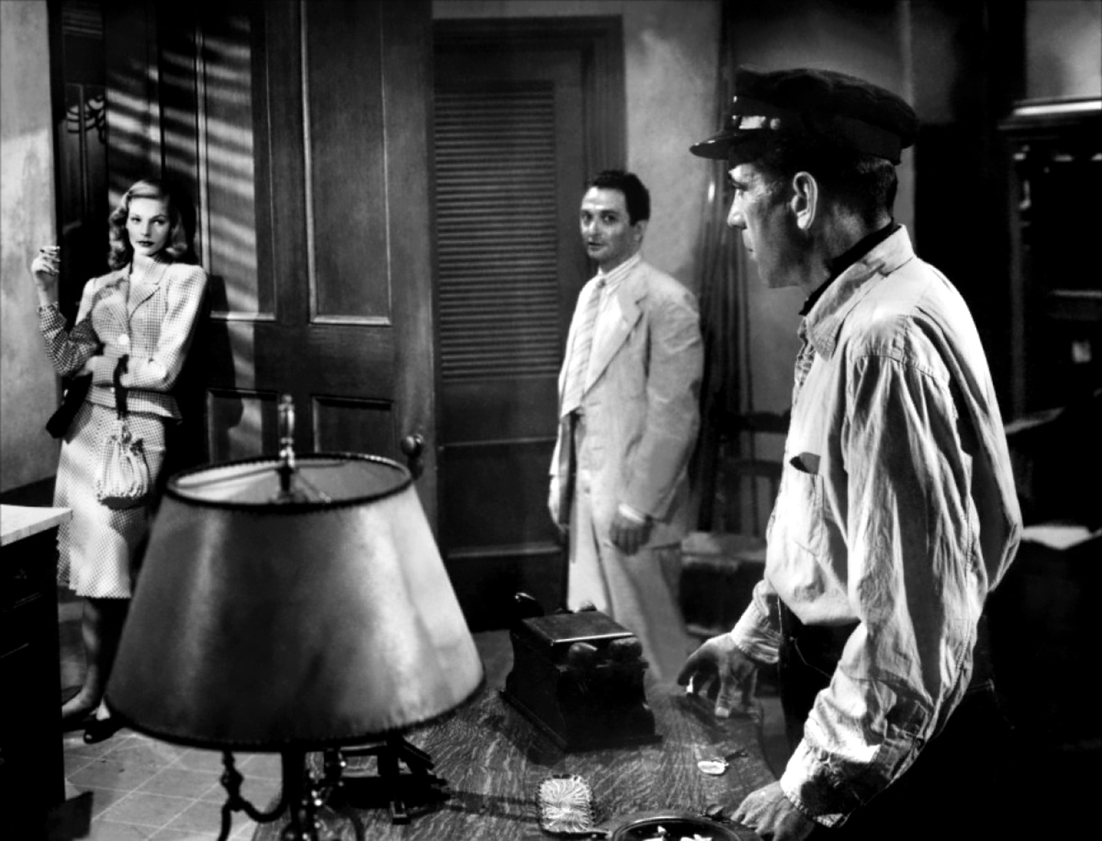 Promotional still from the 1944 film To Have and Have Not. Left to right: Lauren Bacall, Marcel Dalio and Humphrey Bogart.